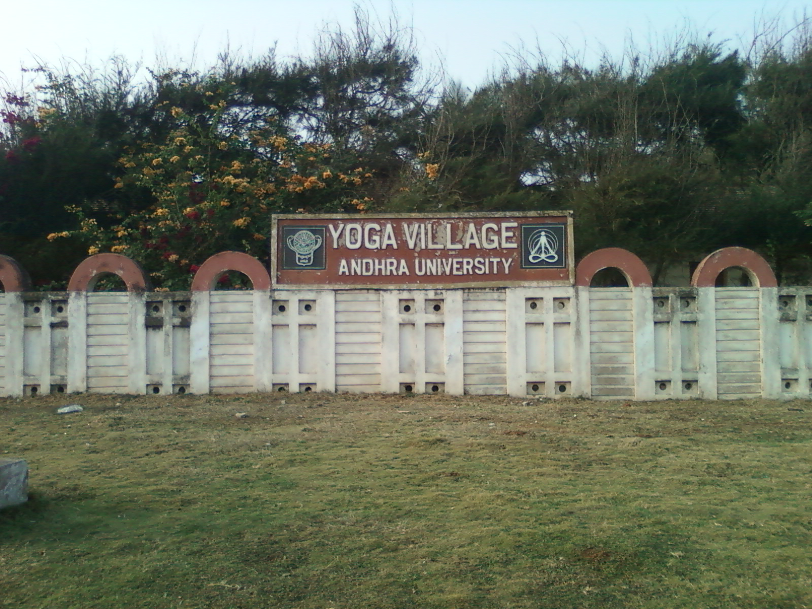 Yoga Village in Andhra University, Visakhapatnam, Andhra Pradesh